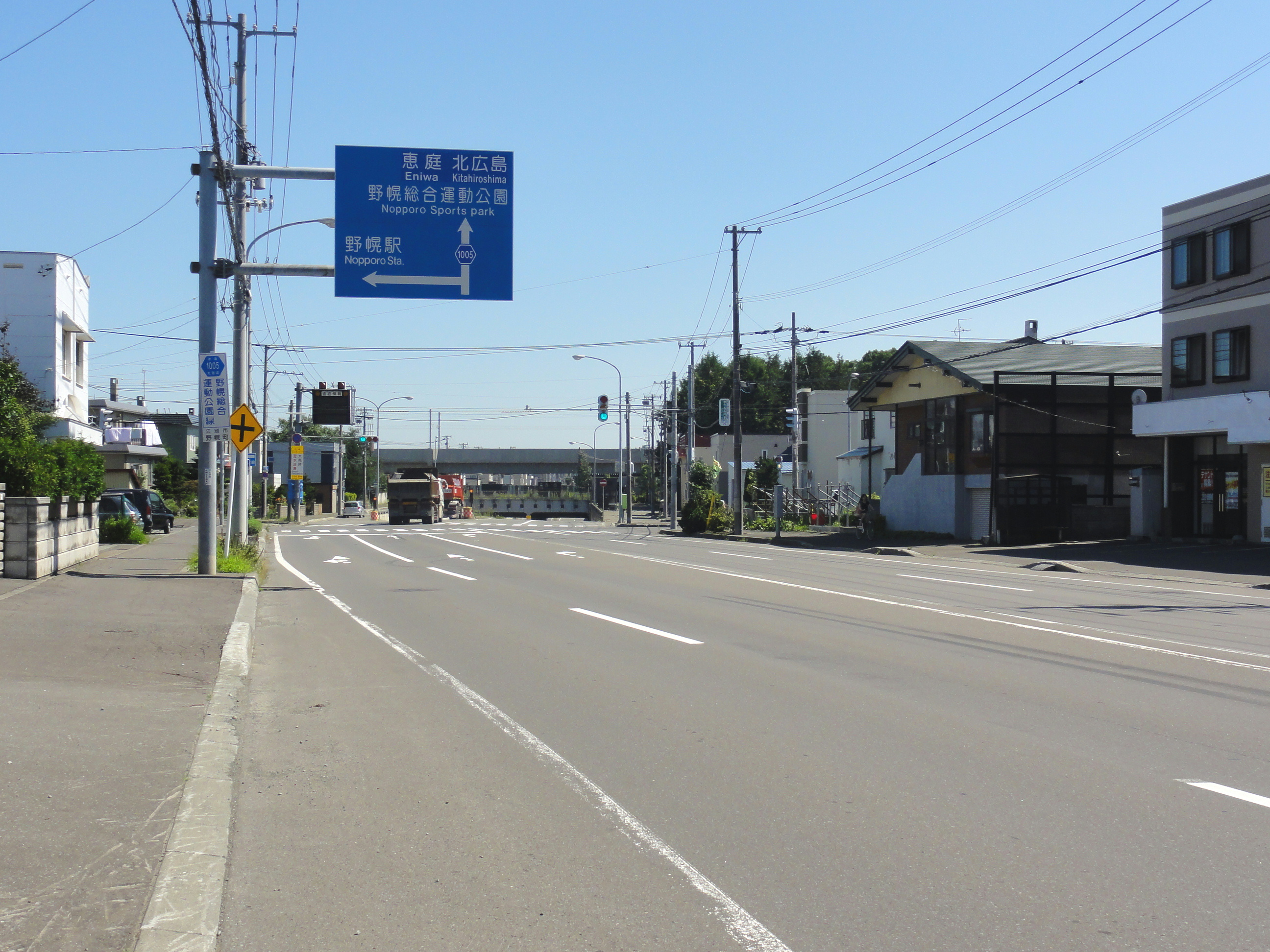 Hokkaido Pref Route 1005 (Ebetsu, Hokkaidō)